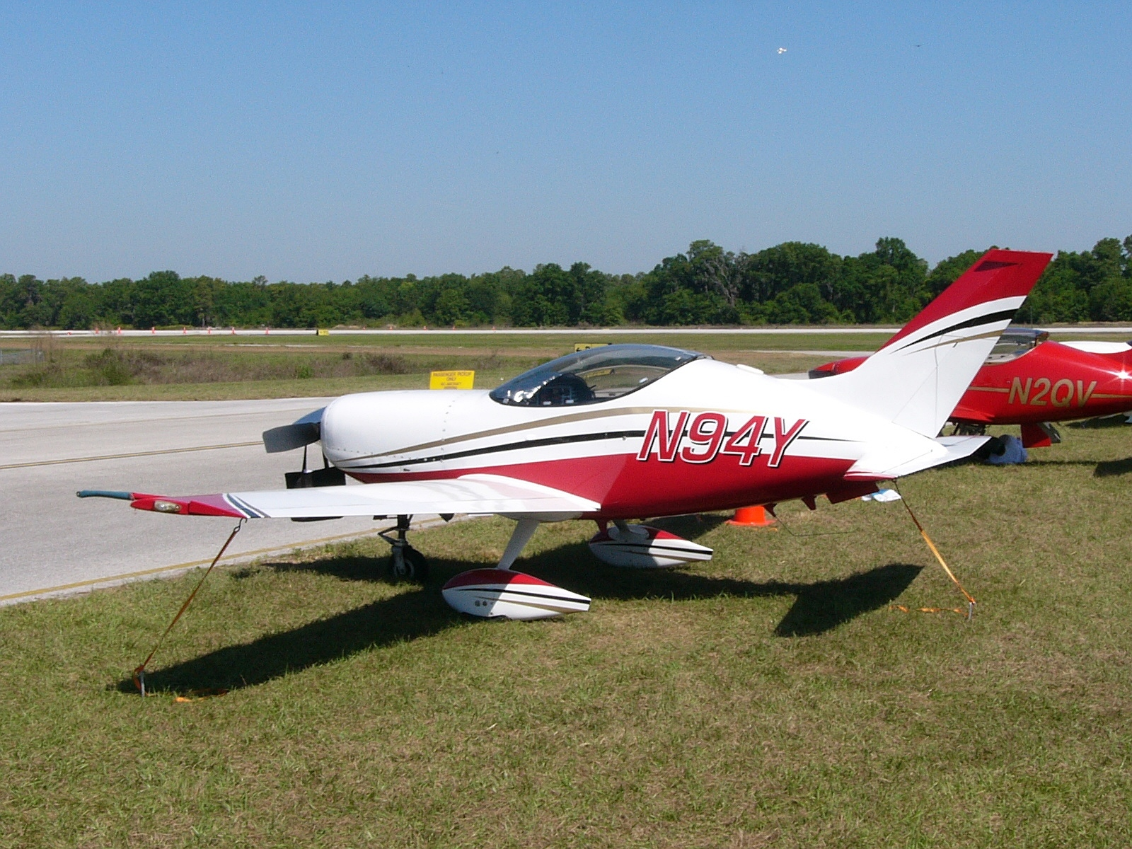 Questair 20 Venture at Sun 'n Fun 2006